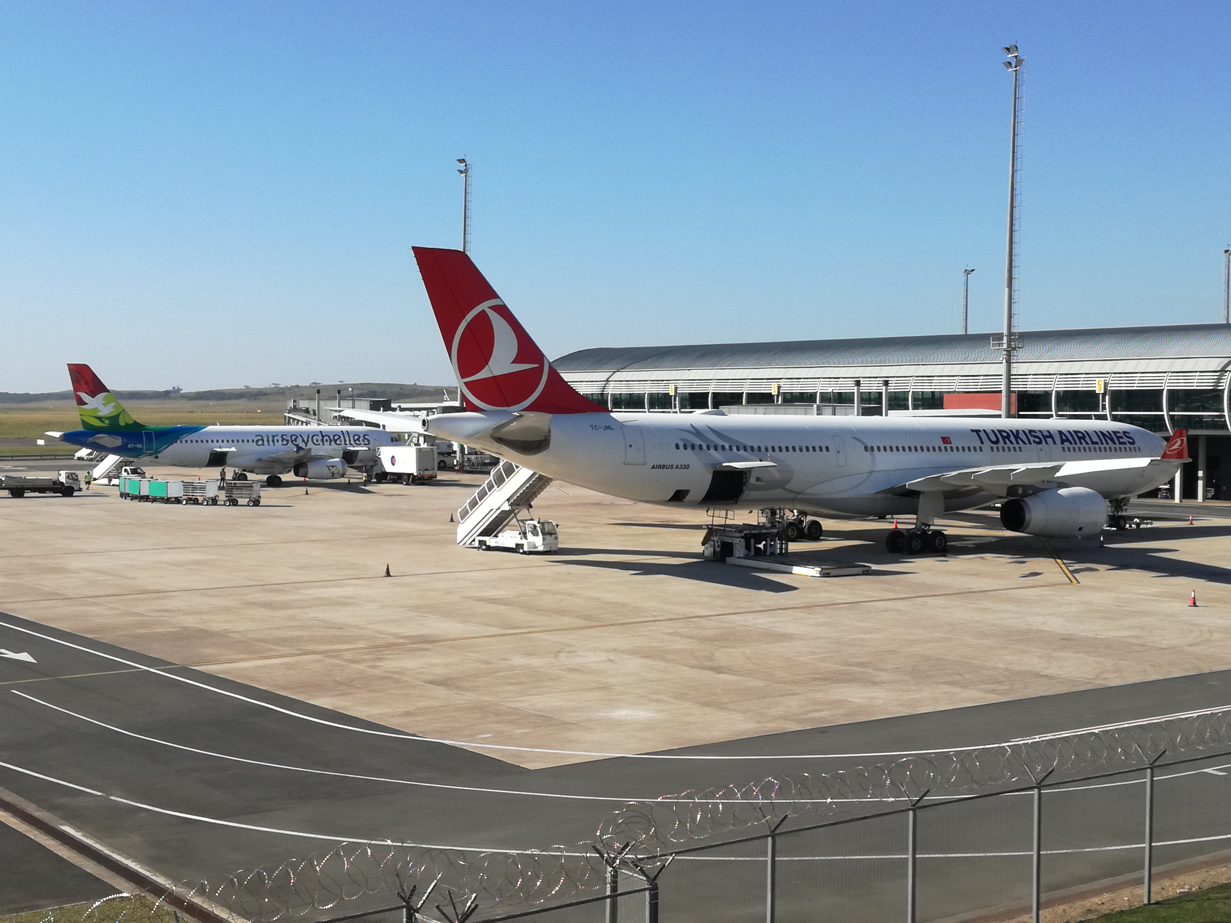 Air Seychelles A320-200 & Turkish Airlines A330-300 at King Shaka International Airport, June 2017